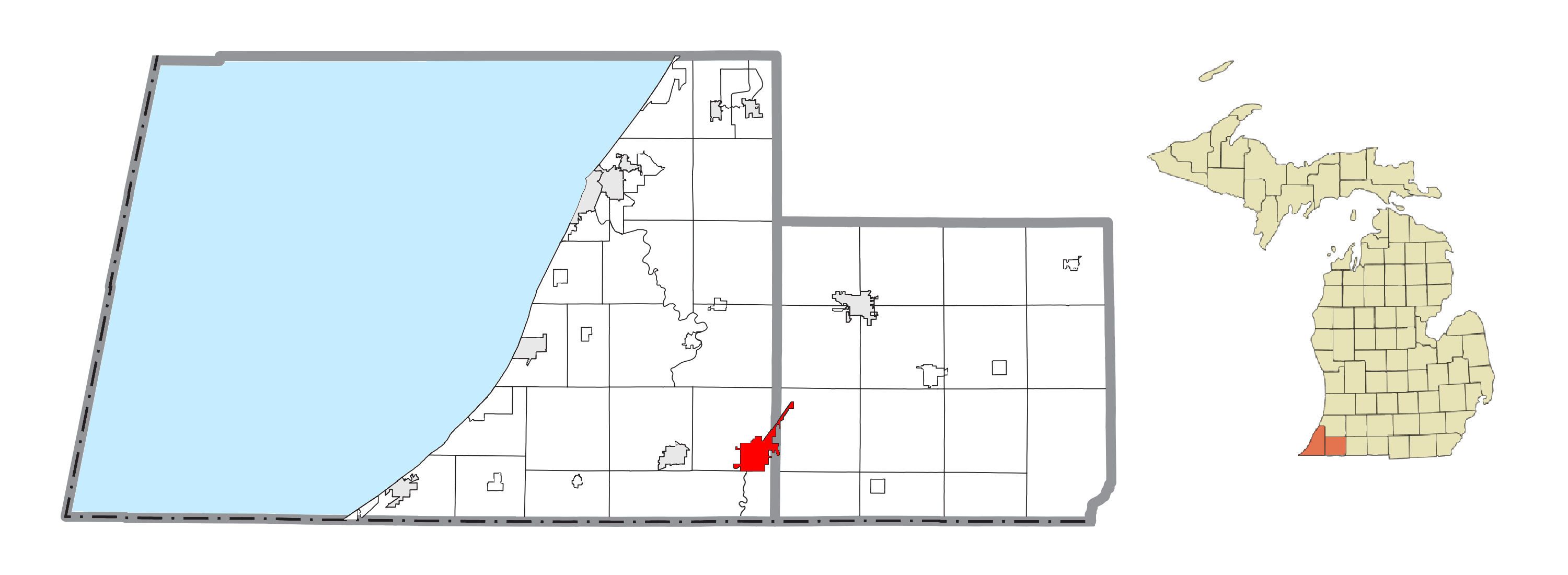 Niles, MI